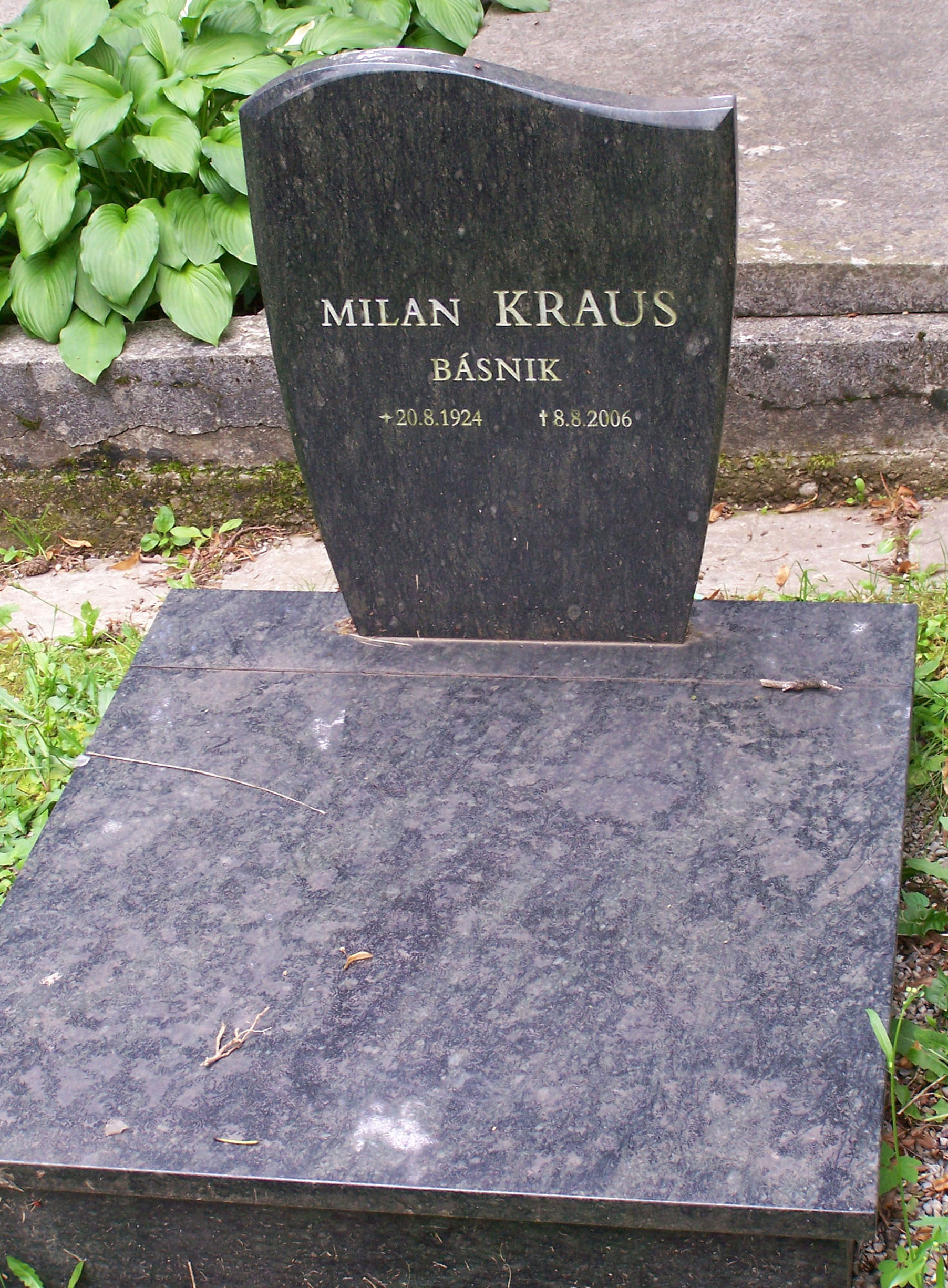 Grave of Milan Kraus at the National Cemetery in Martin, Slovakia